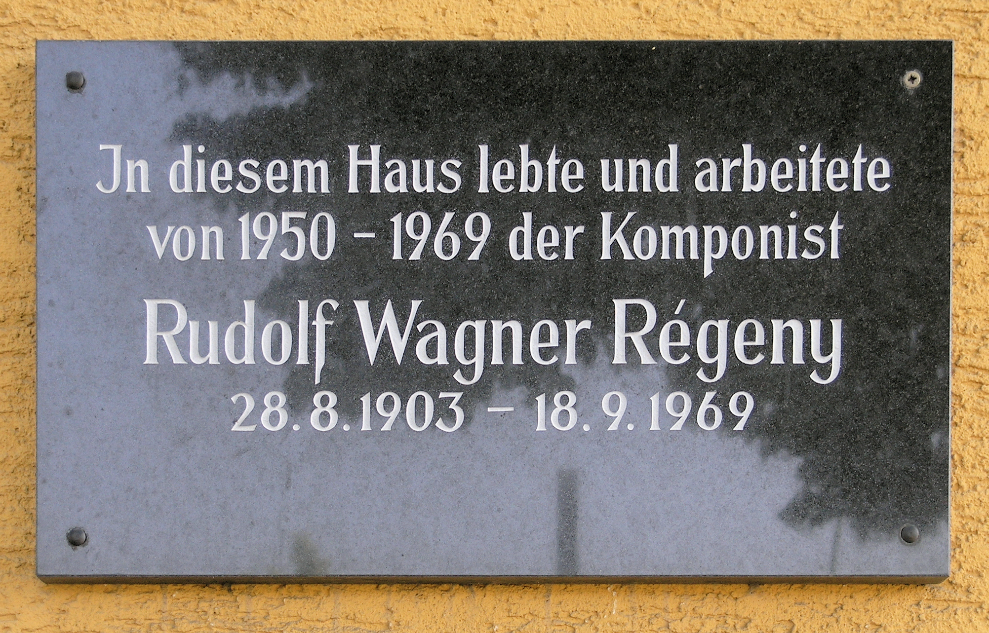 Memorial plaque, Rudolf Wagner-Regeny, Adlergestell 253, Berlin-Adlershof, Germany Koordinate:52°26′9″N 13°32′28″E / 52.43583°N 13.54111°E